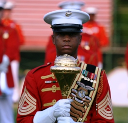 Master Gunnery Sergeant Kevin D. Buckles is currently the Drum Major of "The Commandant's Own", The United States Marine Drum & Bugle Corps (United States Marine Corps).